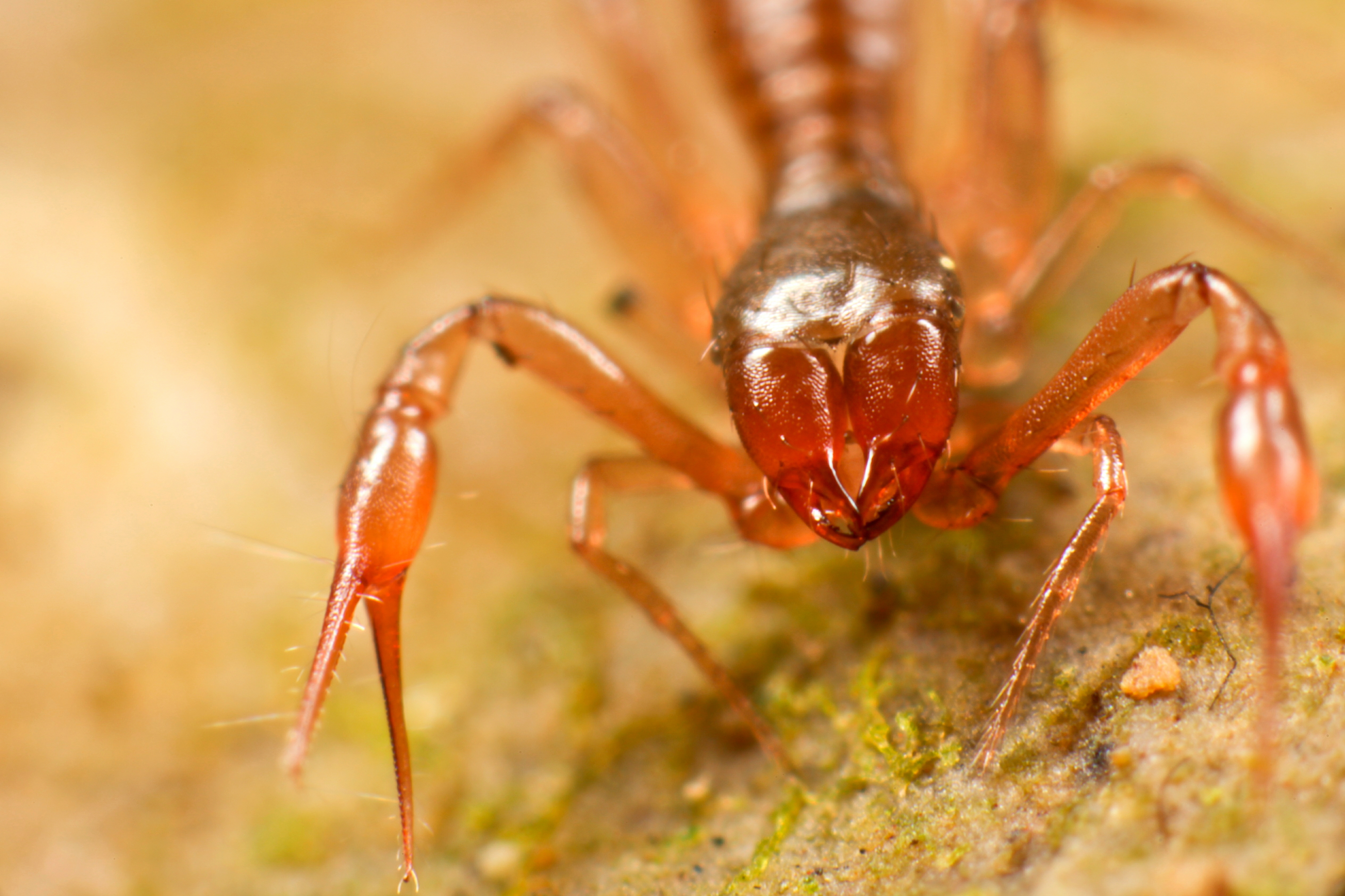 My first pseudoscorpion! I was turning stones over in the local wood and this was under the second one. I hadn't quite appreciated how small they are. And how quick they are. But great to see one finally.